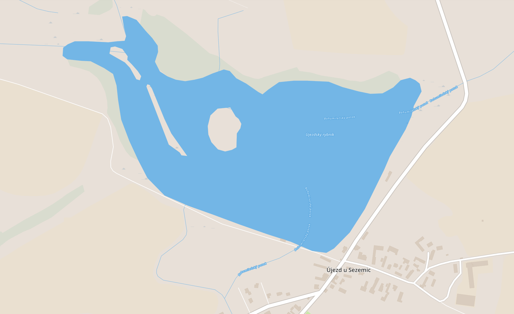 Újezdský Pond, schema. Pardubice District, the Czech Republic.